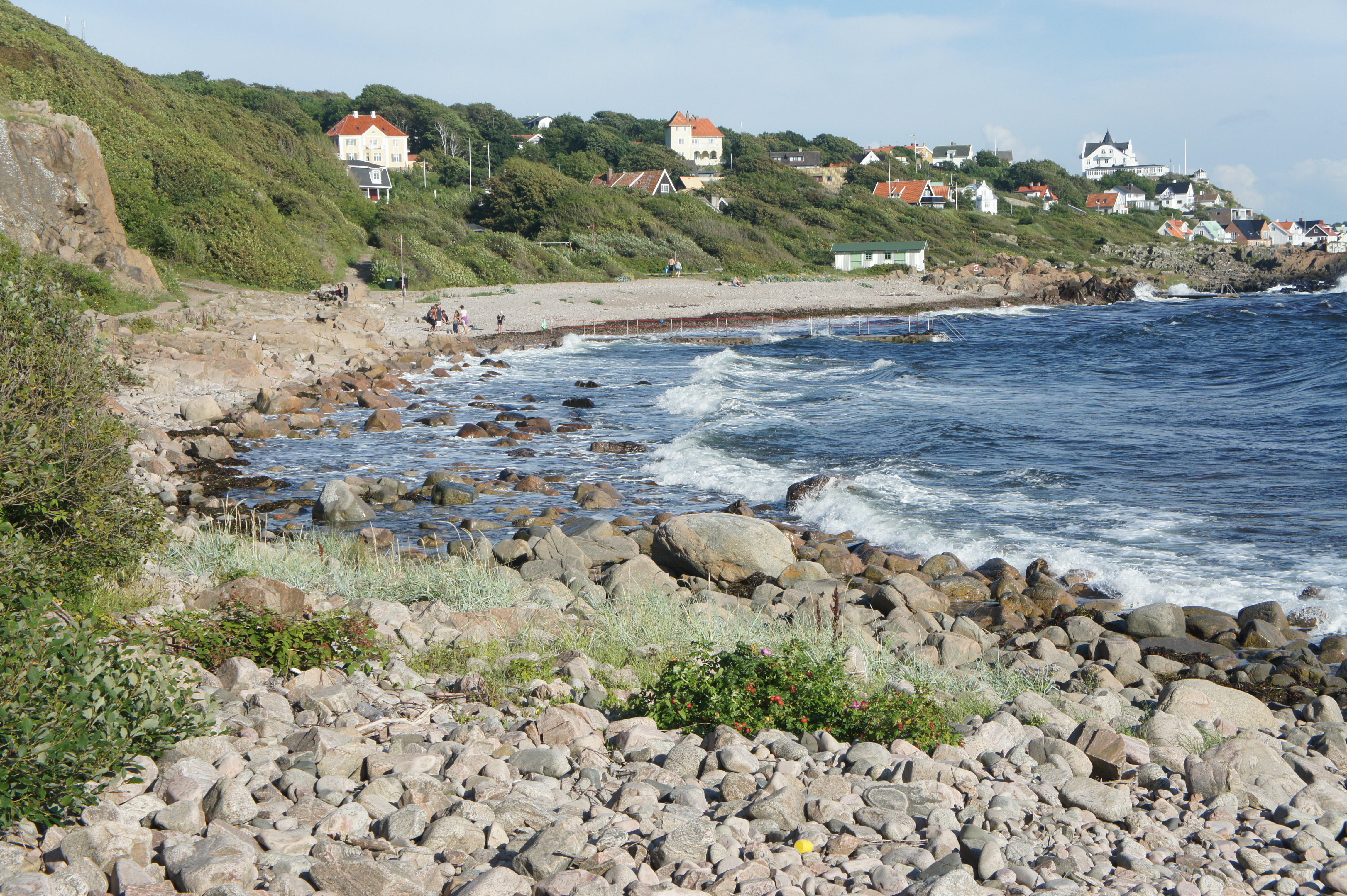 The beach Solviken, Mölle, Sweden.